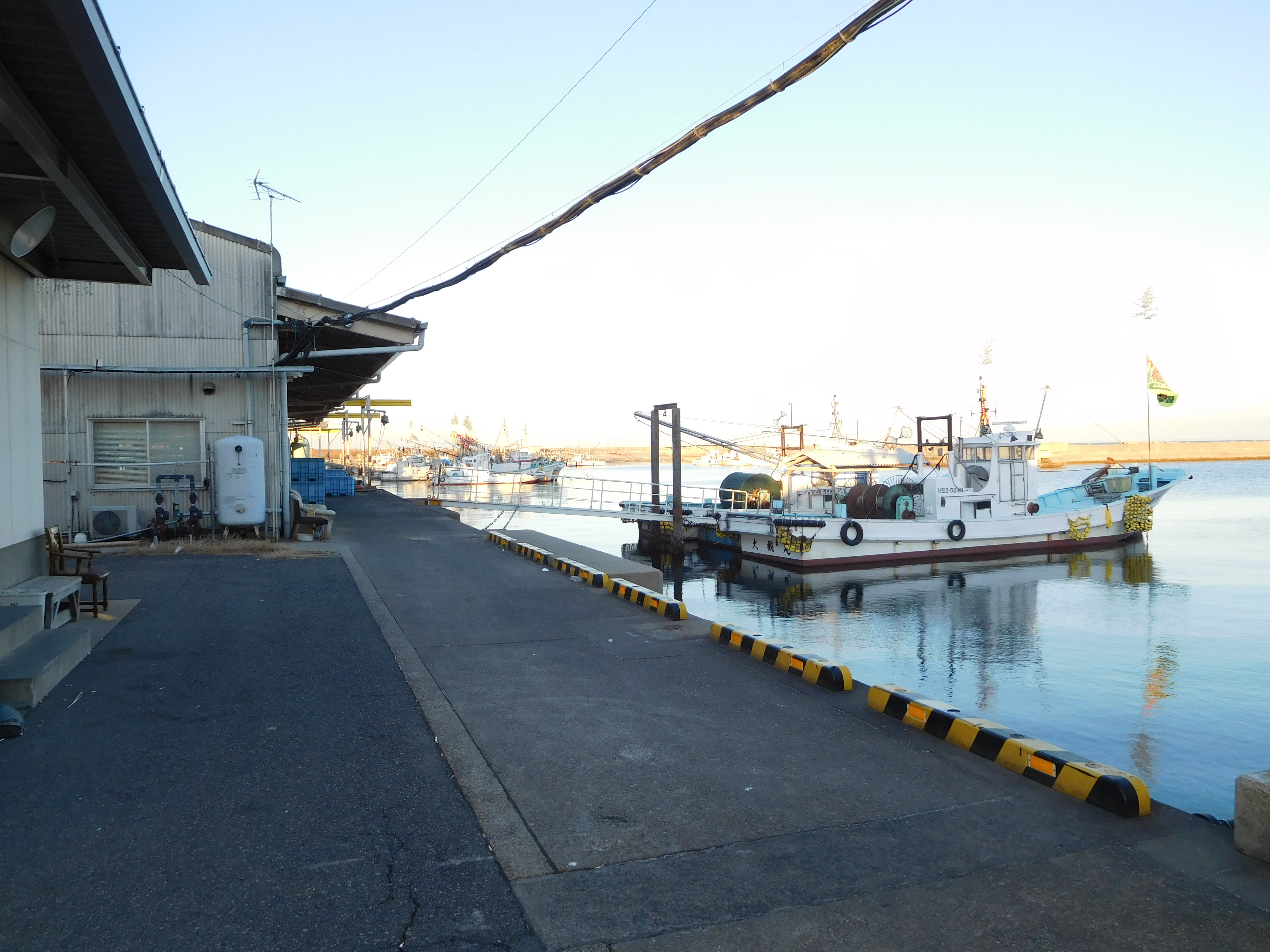 This is Shiratsuka fishing port, which is located in Shiratsuka-cho, Tsu, Mie, Japan.